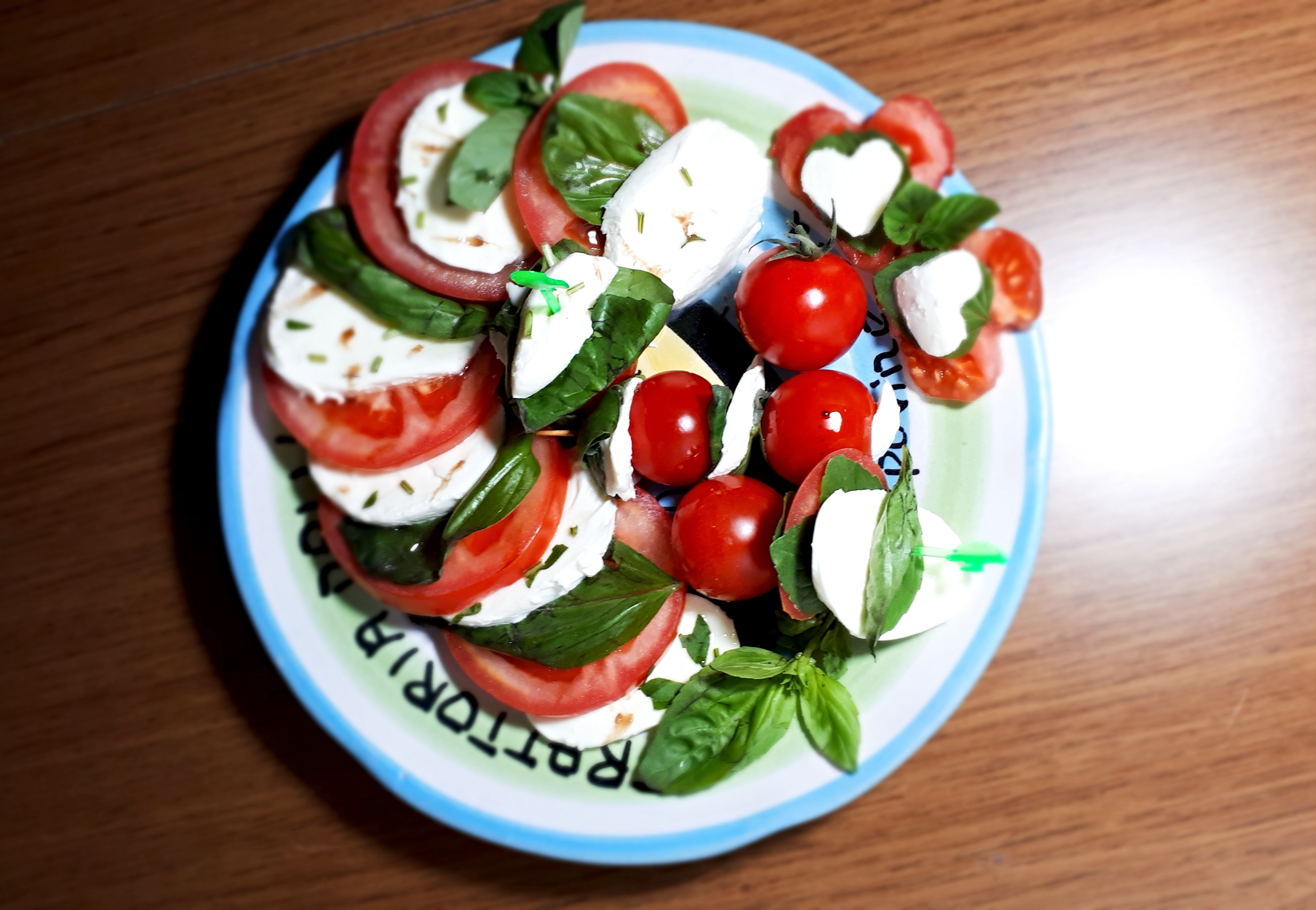 Caprese - Italian salad, made of sliced fresh mozzarella, tomatoes, and sweet basil, seasoned with salt and olive oil